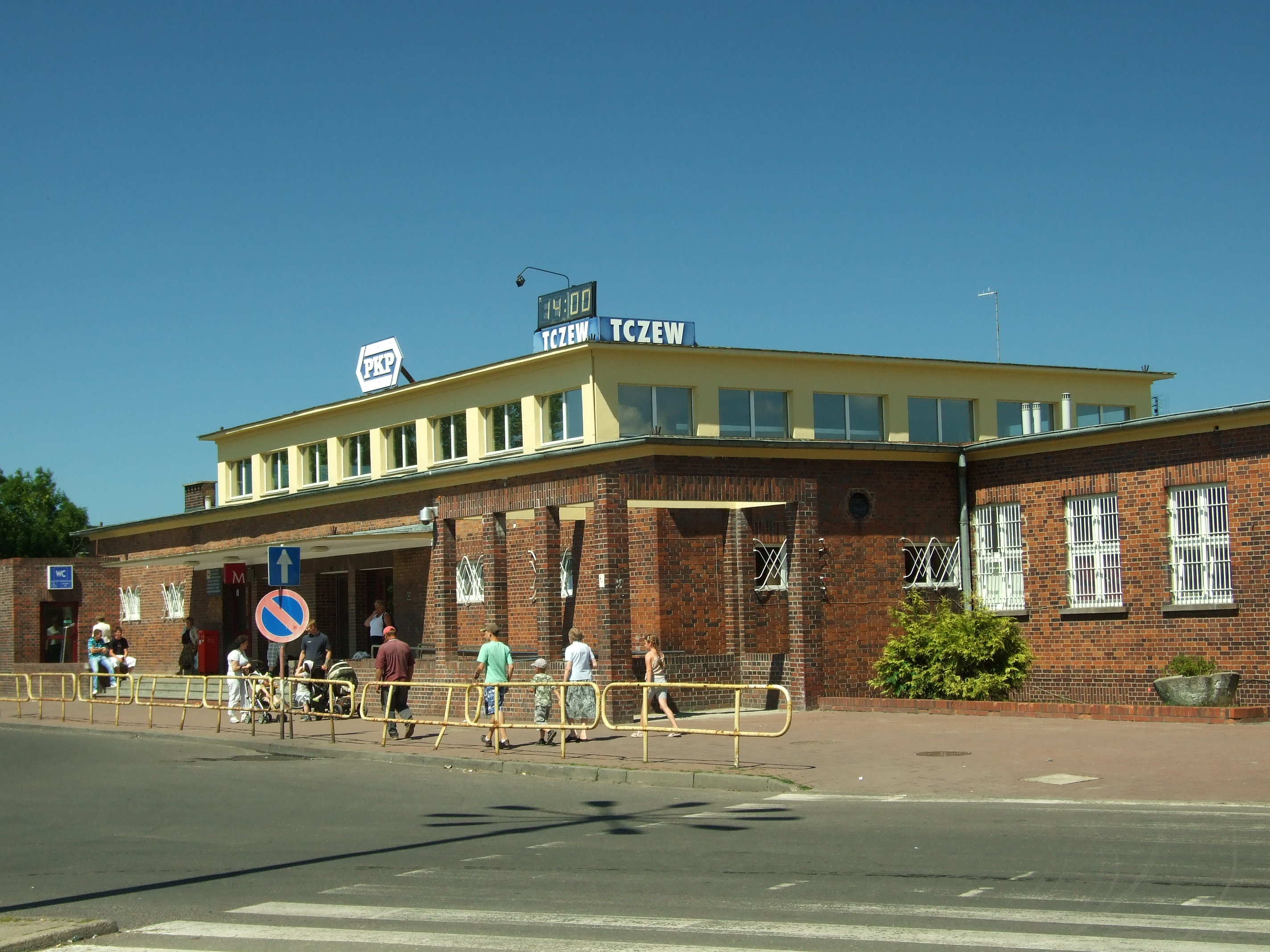 Train station in Tczew - main building; Pomorskie vojvodship, Poland